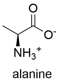 Alanine at physiological pH